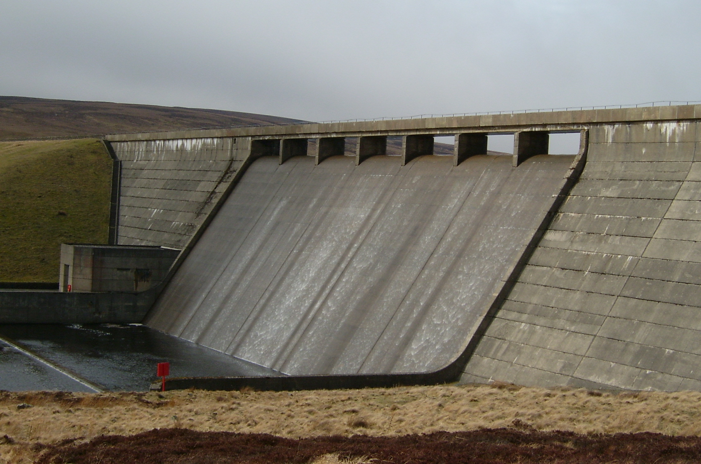 Cow Green Dam.